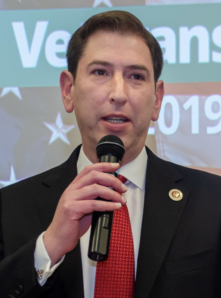 MTA New York City Transit hosts a Veterans Day program at 130 Livingston St. on Thu., November 7, 2019. Councilmember Chaim Deutsch Photo: James Sanon / MTA New York City Transit